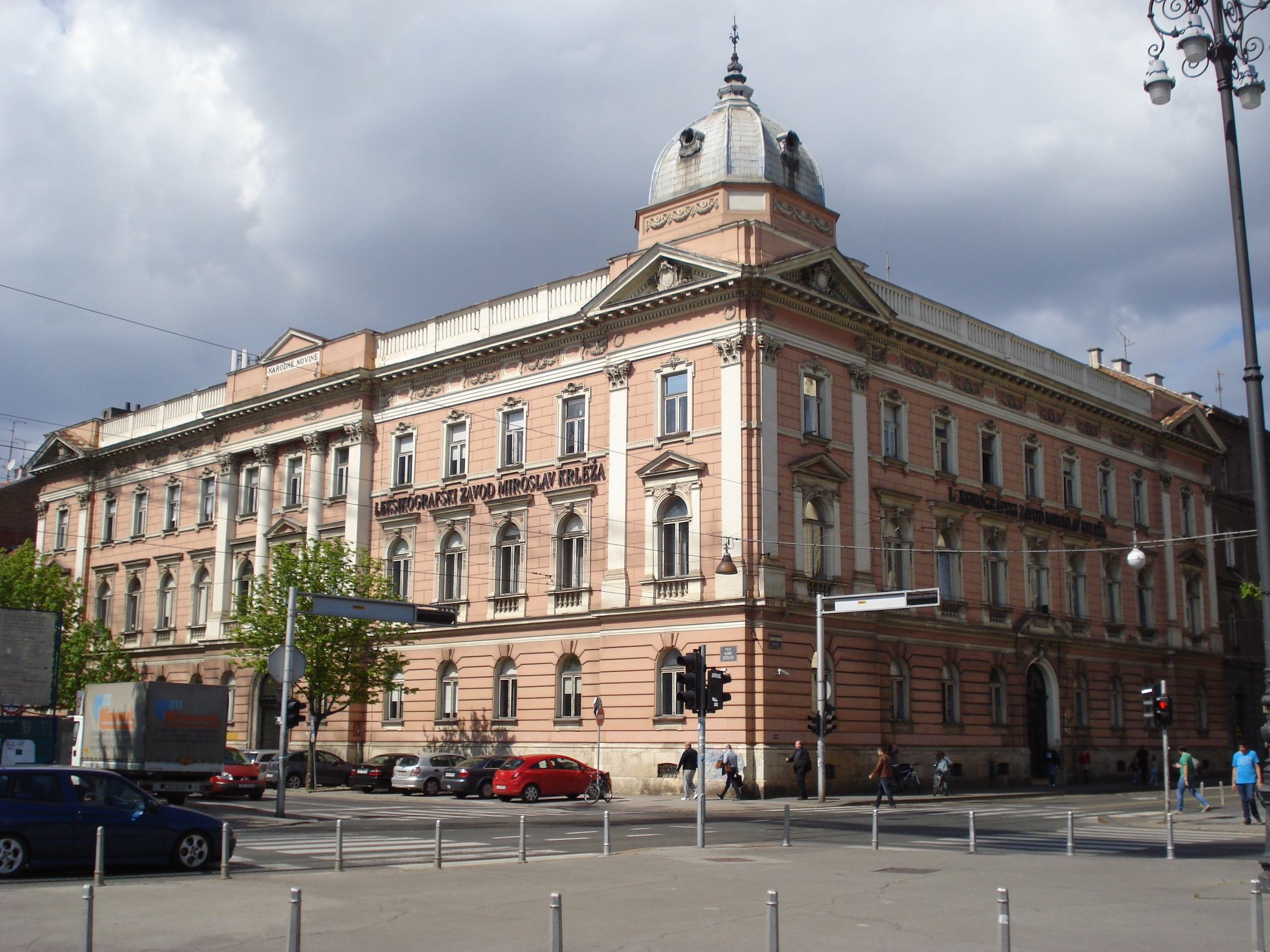 Miroslav Krleža Lexicographical Institute's building in Zagreb, Croatia